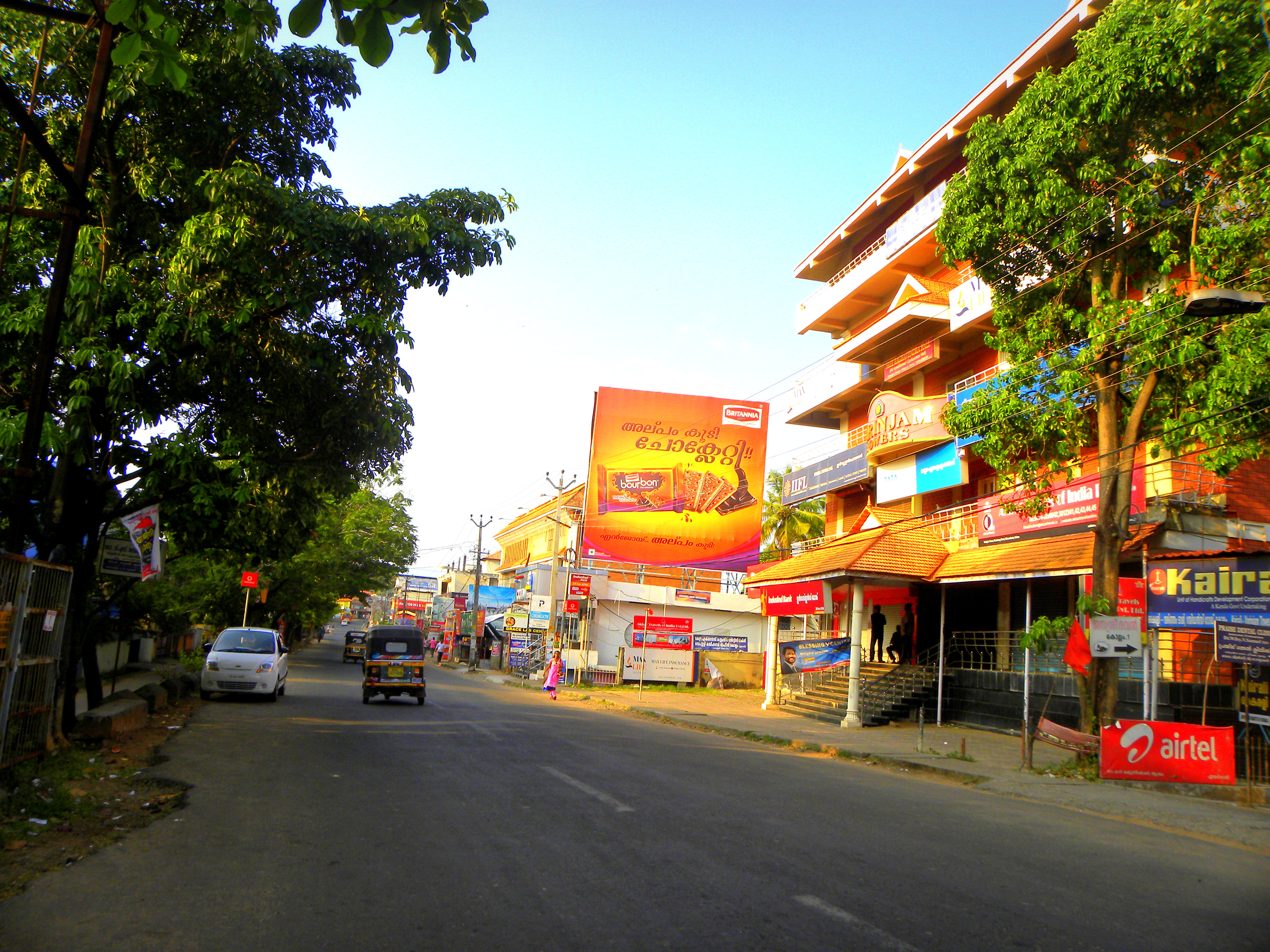 Residency Road - One of the important high streets in Kollam city